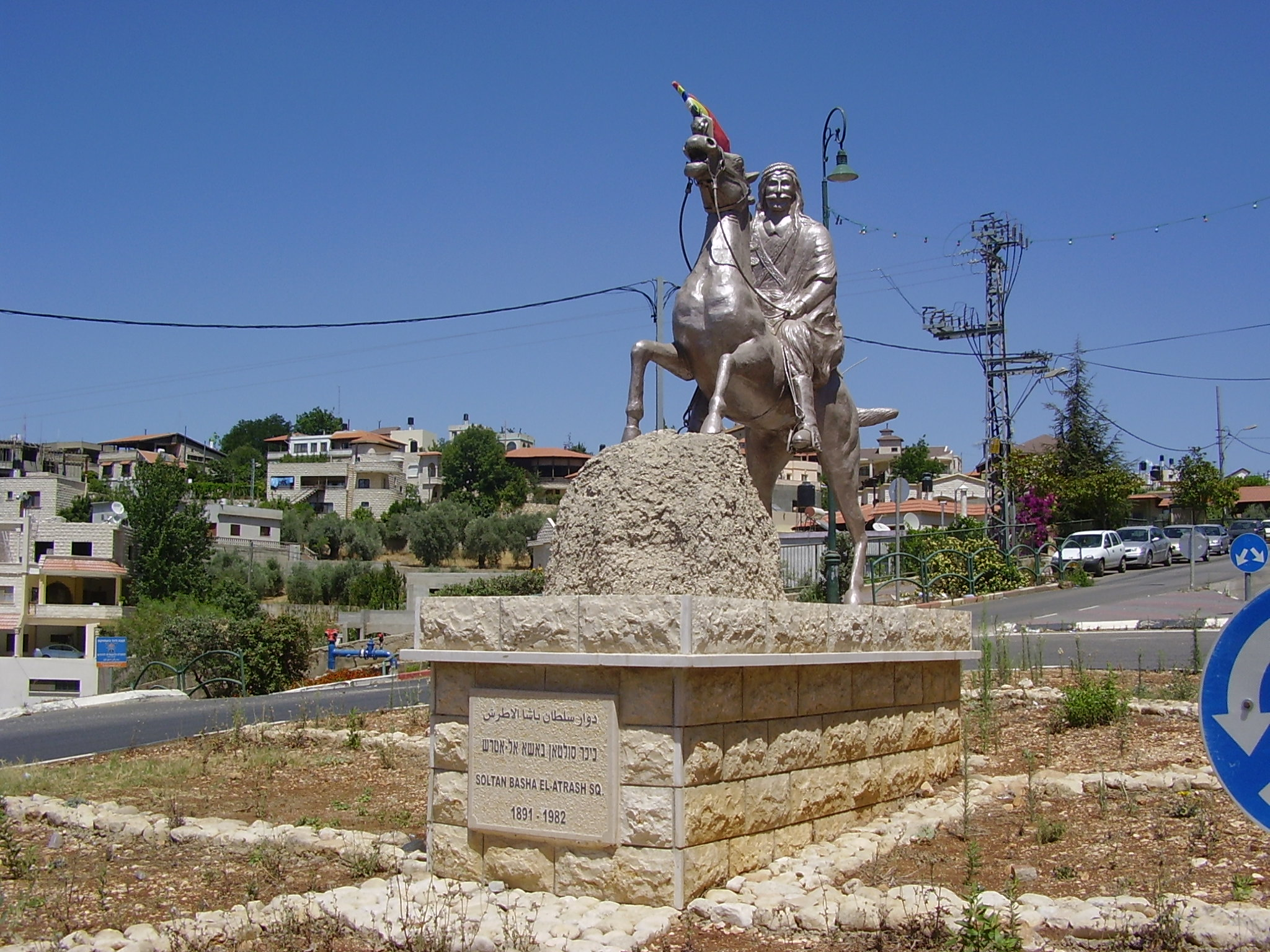 Statue of Sultan al-Atrash in the predominantly Druze village of Hurfeish in the Upper Galilee.